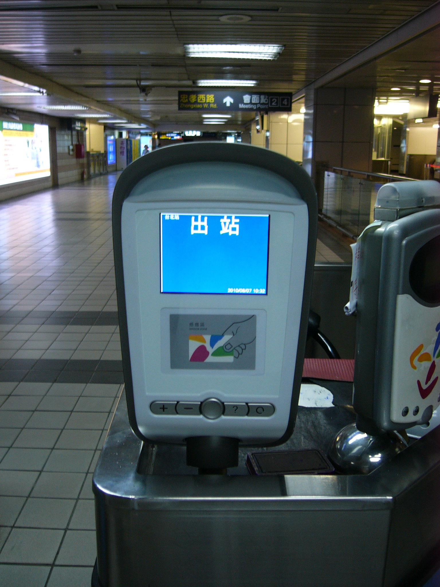 EasyCard reader with blue LCD screen in TRA Taipei Station, made by Microprogram Information.